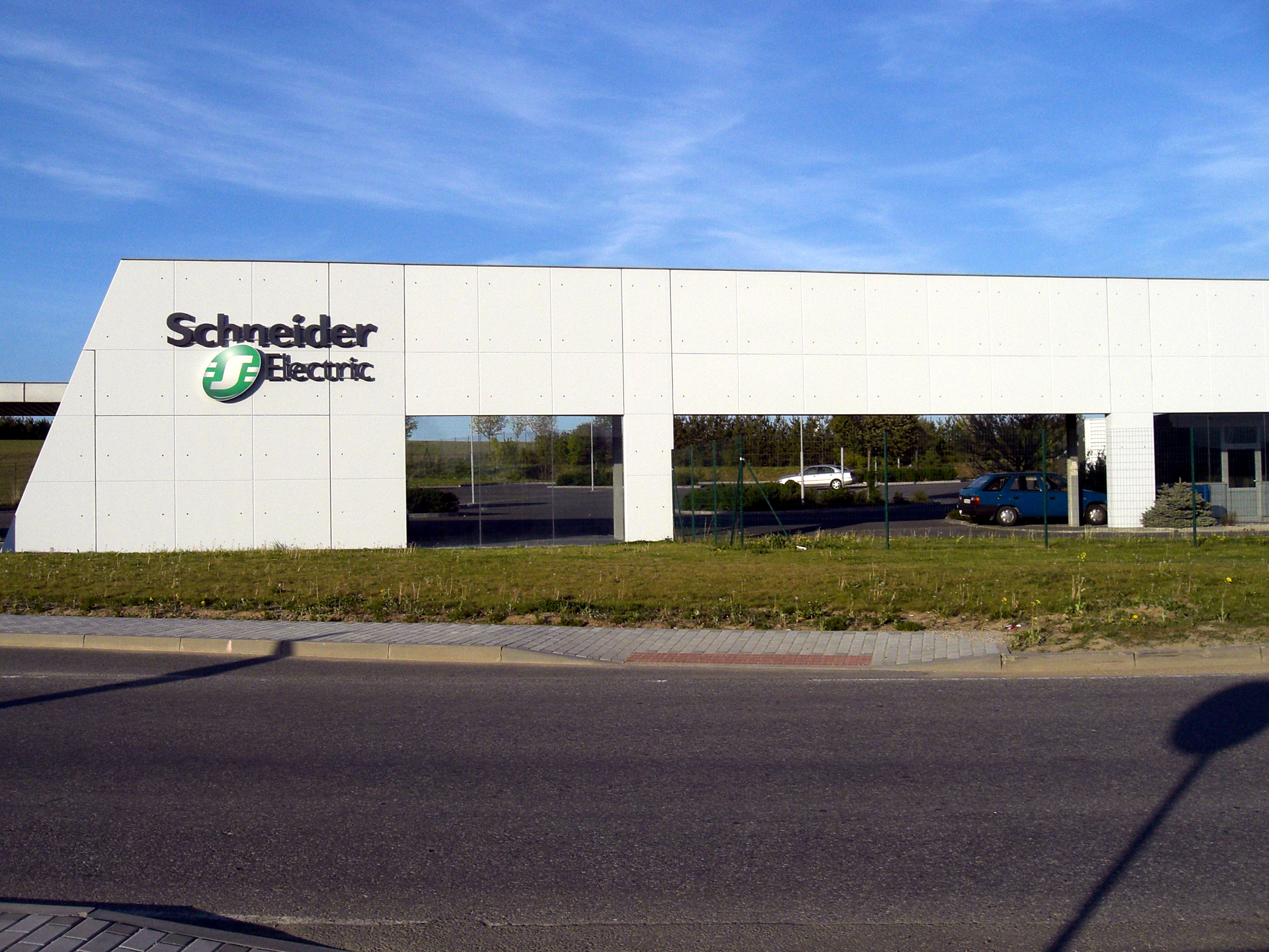 Schneider Electric factory in Písek, Czech Republic. Main gate